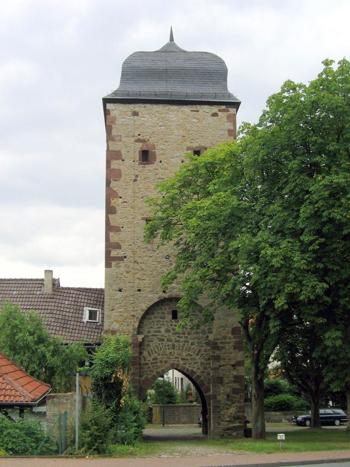 The Johannistor with tower in Warburg, built in 1290-1350.